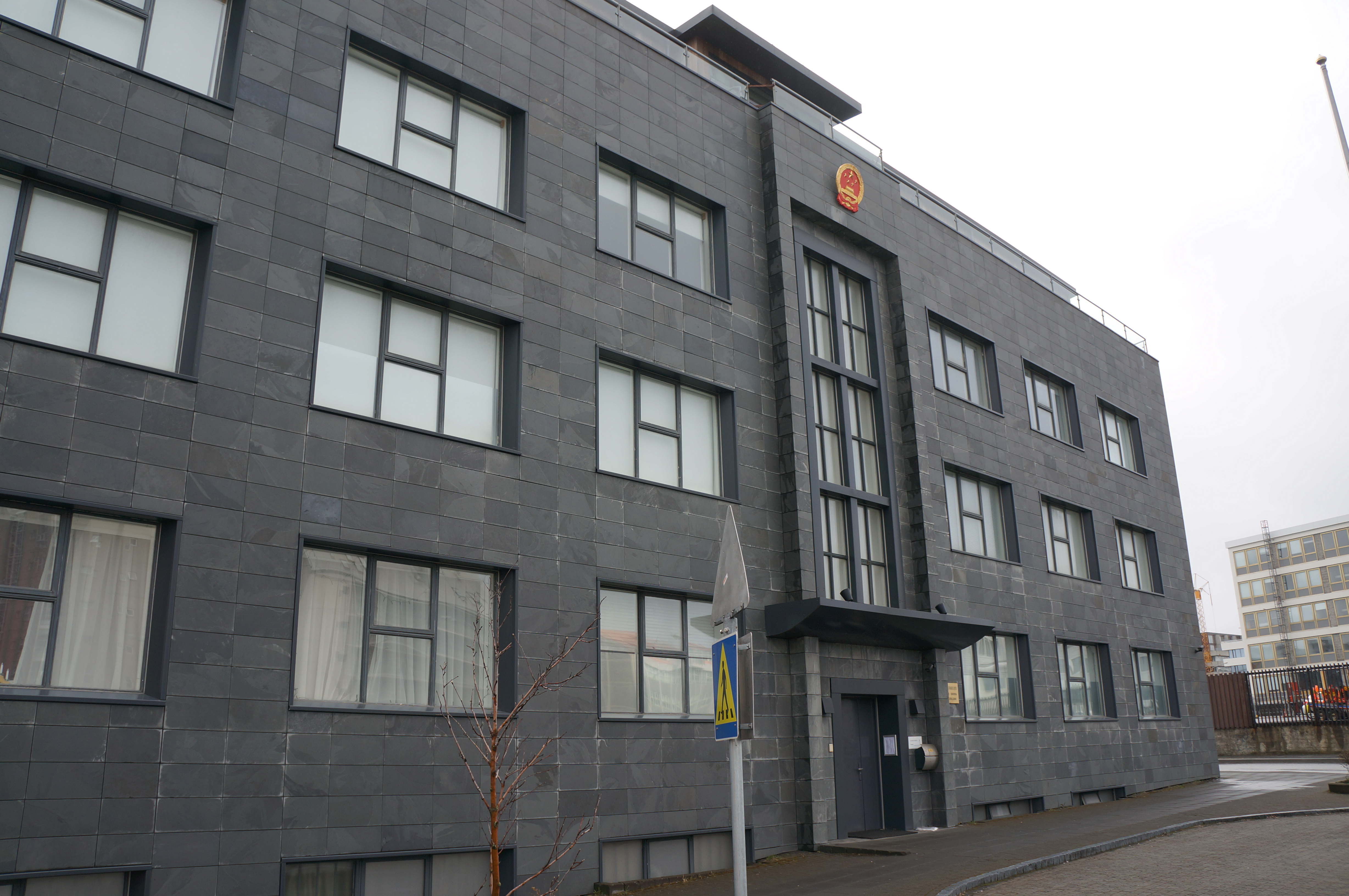 In Iceland, the offices of the Embassy of the People's Republic of China.